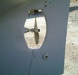 My Prop